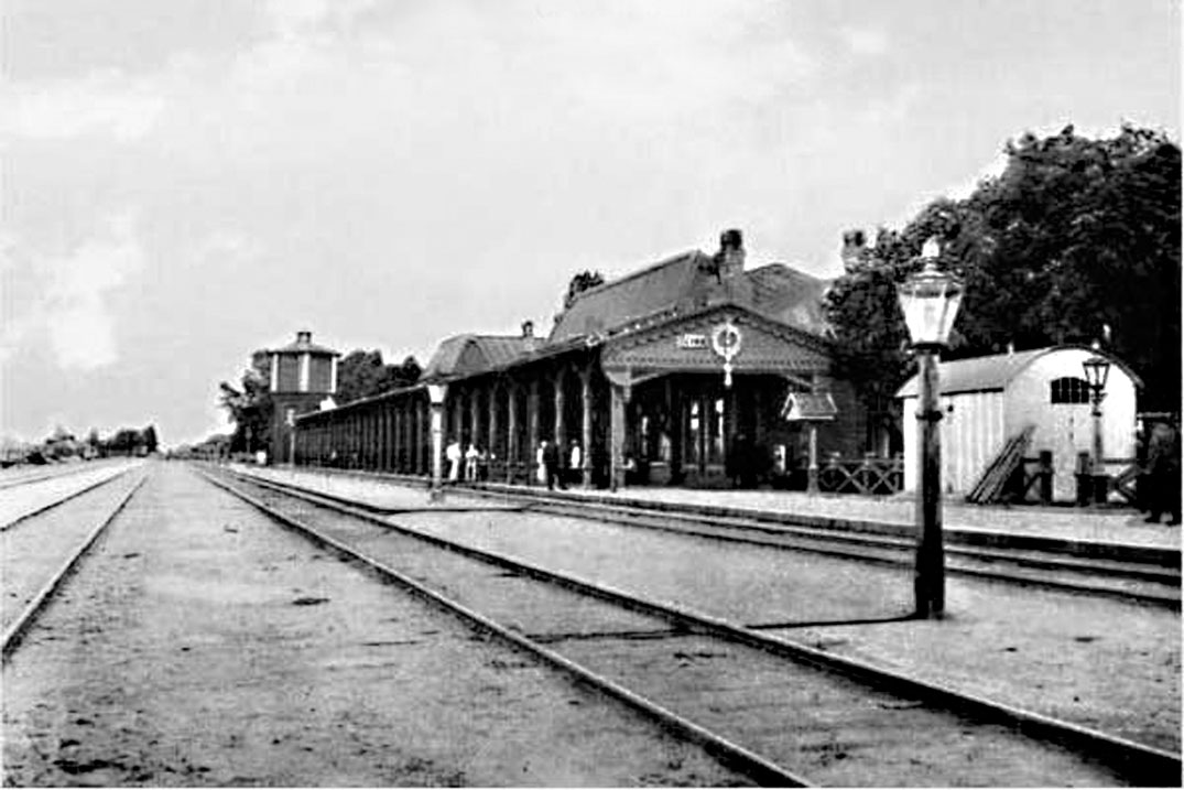 Railway station in Sumy (now Ukraine). Beginning of the 20th century. Postcard.